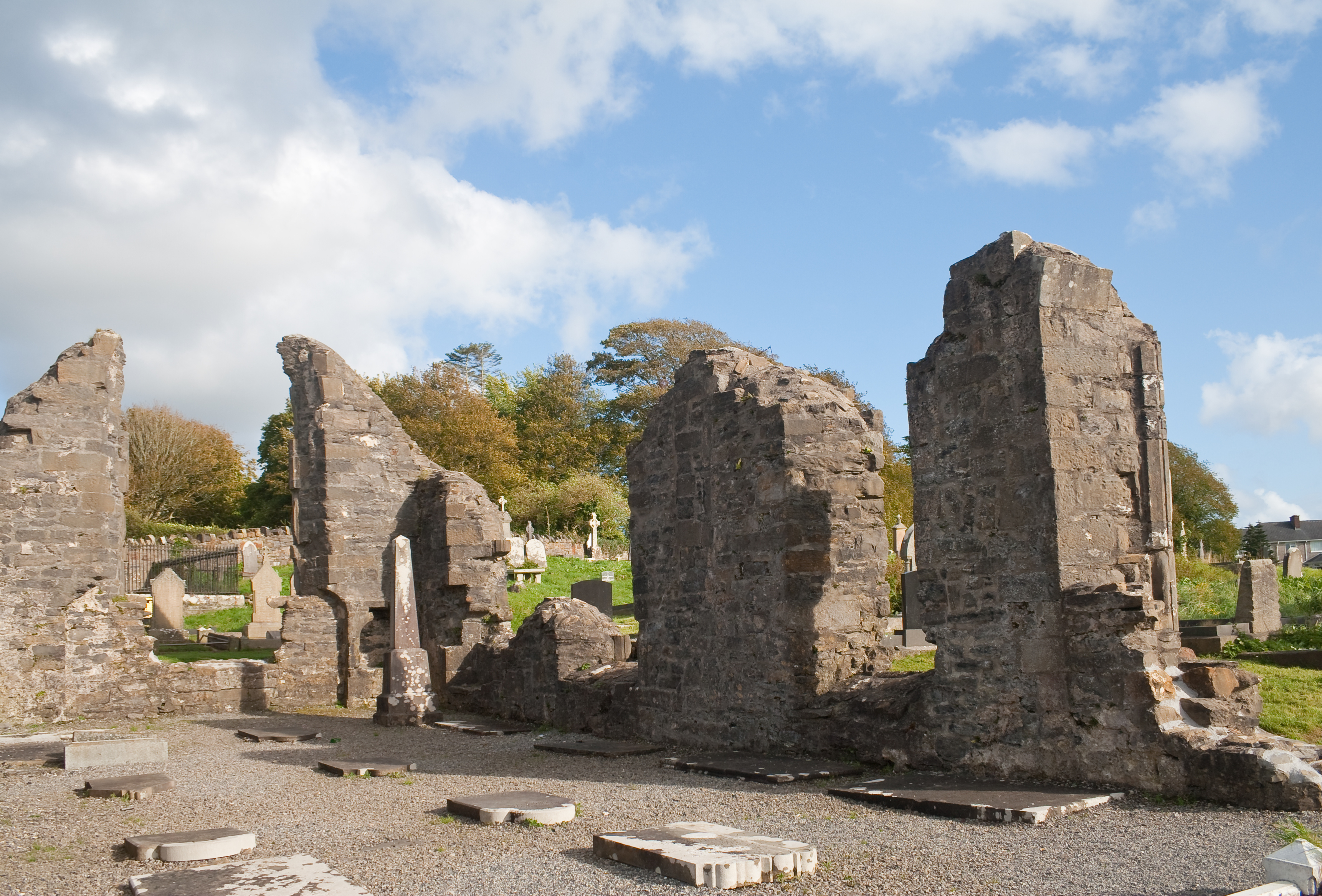 Donegal Friary, County Donegal, Ireland East and south windows of the choir.